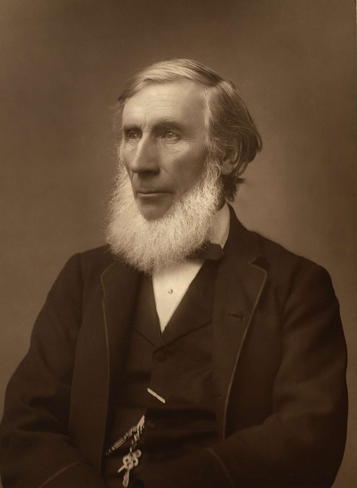 This image digitally reproduces a photograph (ca. 1885) of John Tyndall, an Irish natural philosopher and scientist . The original, tentatively identified as a Woodburytype , is held in a private collection.